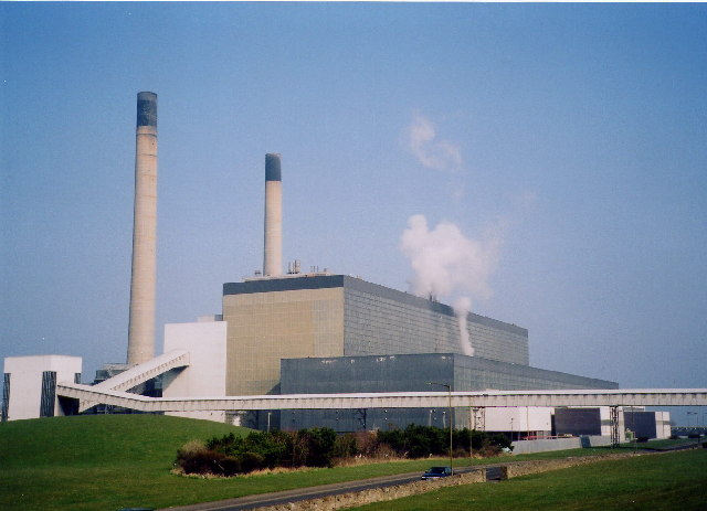 Cockenzie Power station